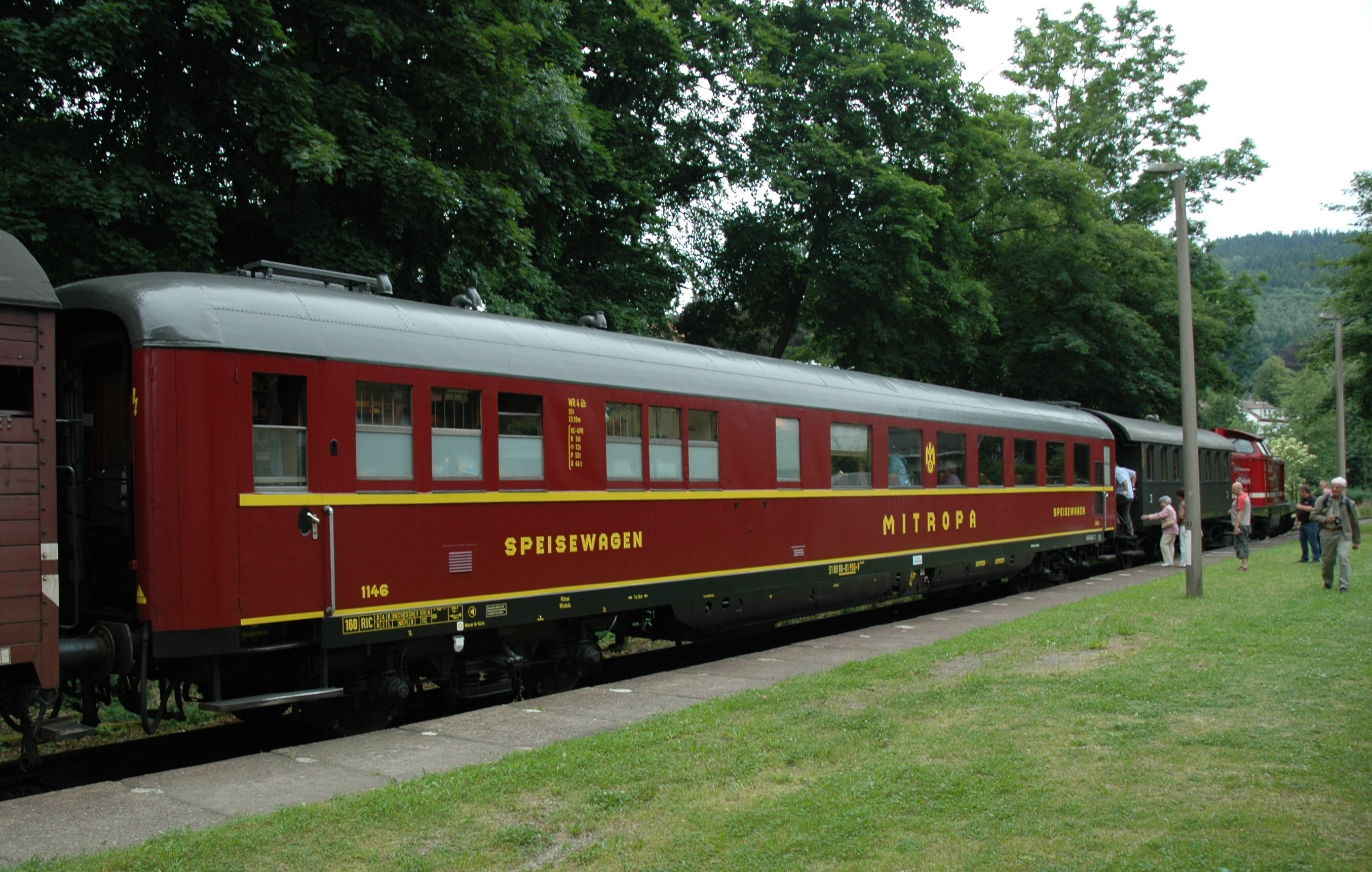 Train of the private Thuringian Rennsteigbahn' railway company at the train station Ilmenau Bad with refurbished Mitropa coach, waiting for depature for a Gourmetfahrt ("gourmet ride")